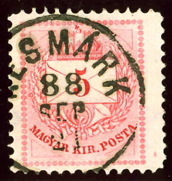 Késmark (Hungarian for Kežmarok) cancelled in 1888 on Kingdom of Hungary stamp issue 1881 (red figure)